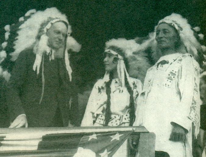 President Coolidge, Chauncey and Rosebud Yellow Robe, Dead Wood, South Dakota Other information No. This work is in the public domain because it was published in the United States between 1924 and 1963 and although there may or may not have been a copyright notice, the copyright was not renewed. Unless its author has been dead for the required period, it is copyrighted in the countries or areas that do not apply the rule of the shorter term for US works, such as Canada (50 pma), Mainland China (50 pma, not Hong Kong or Macao), Germany (70 pma), Mexico (100 pma), Switzerland (70 pma), and other countries with individual treaties. See Commons:Hirtle chart for further explanation.